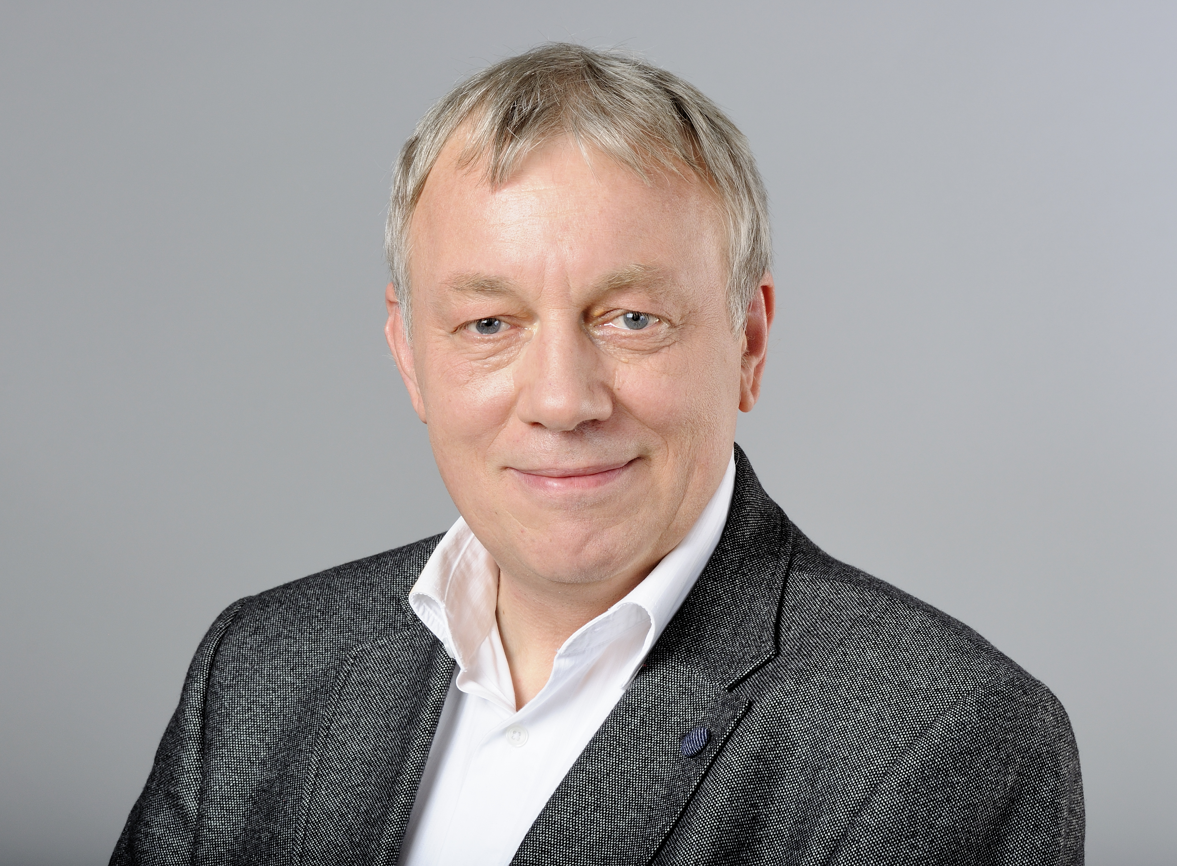 Mario Krüger, North Rhine-Westphalian politician (Bündnis 90/Die Grünen) and member of the Landtag of North Rhine-Westphalia.